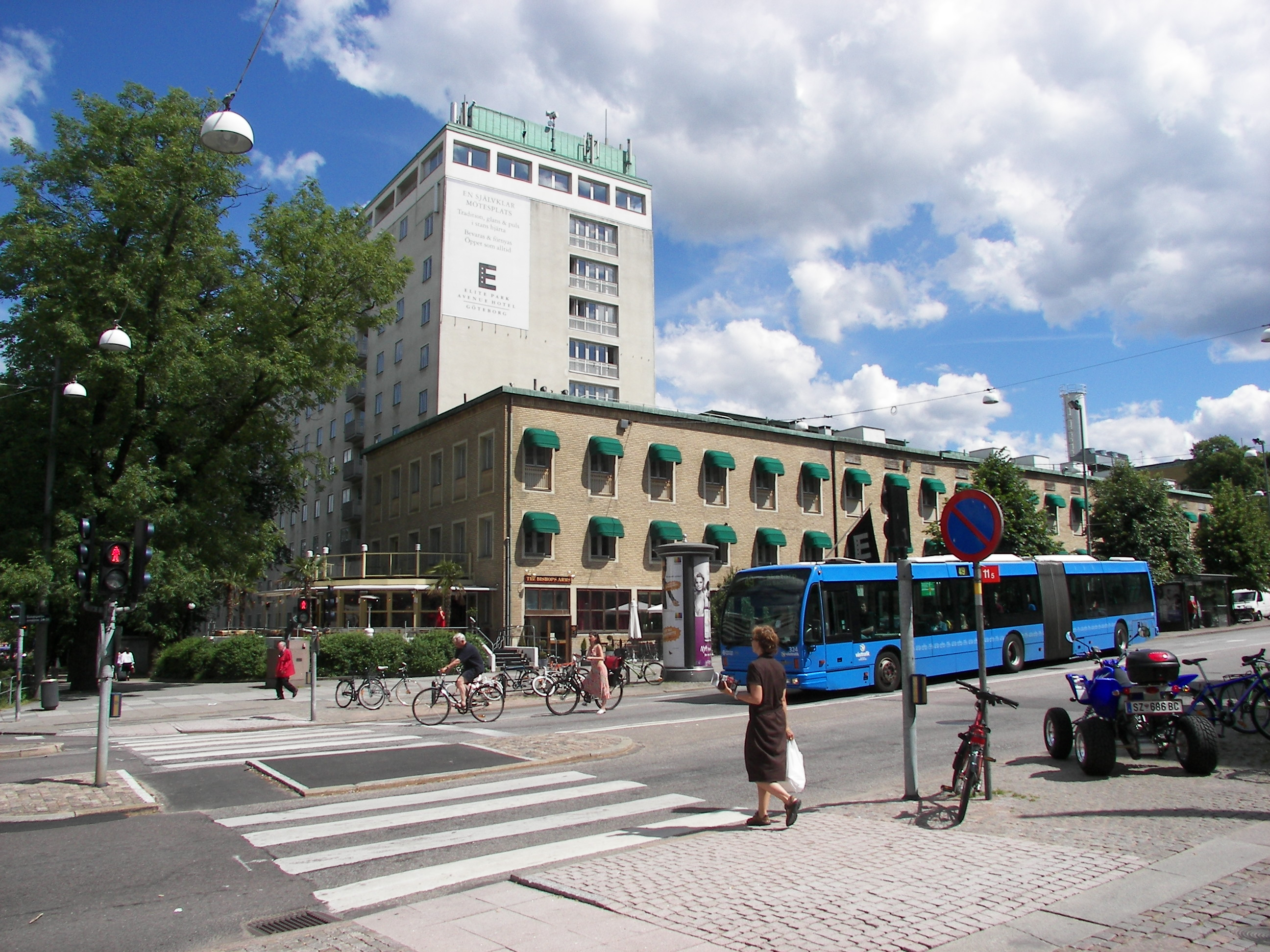 Park Avenue in Göteborg, Sweden. Den Oudsten B93 bus (#324). Built 2000, GS Göteborg operator.